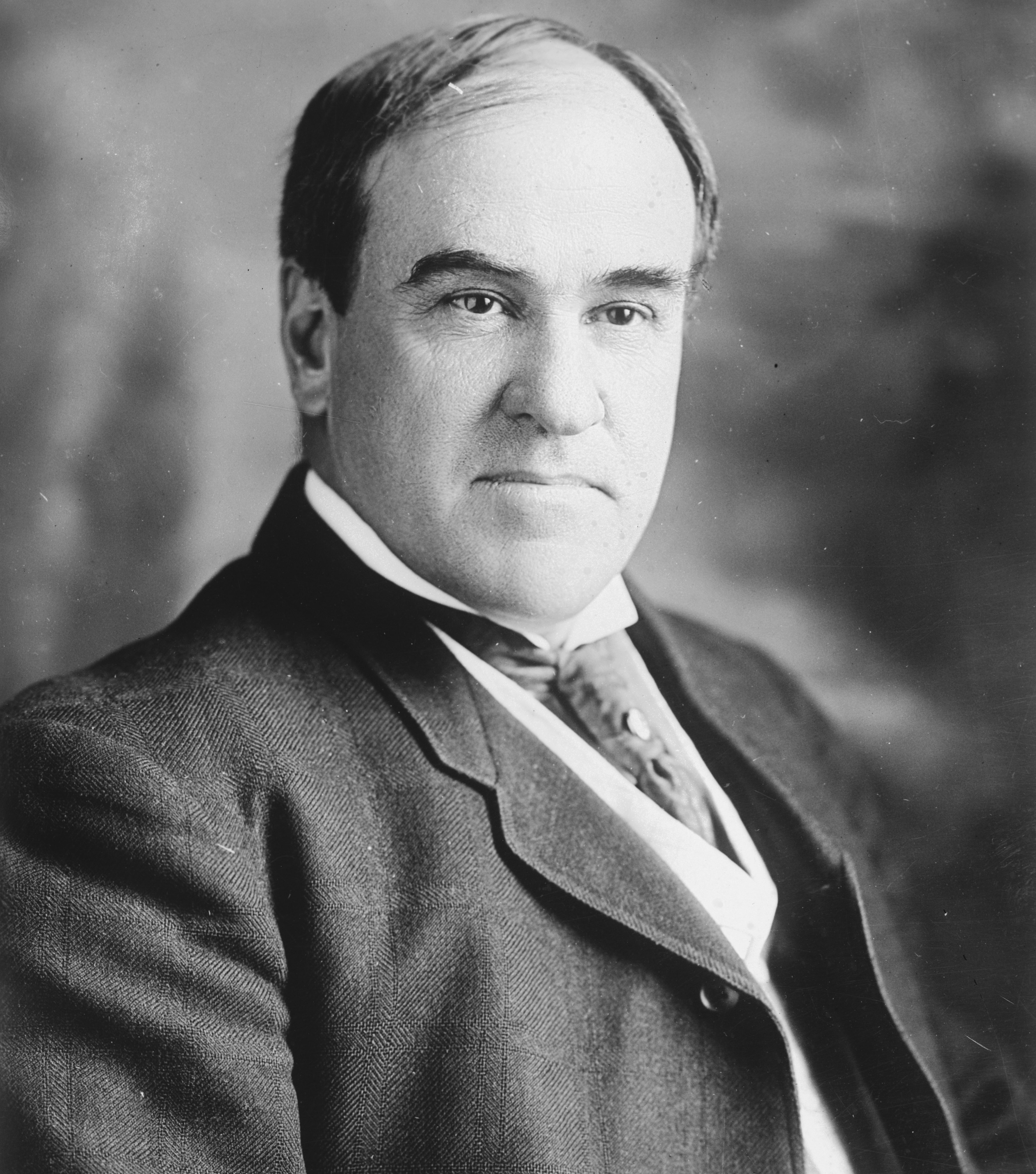 Benjamin G. Humphreys, US Representative from Mississippi